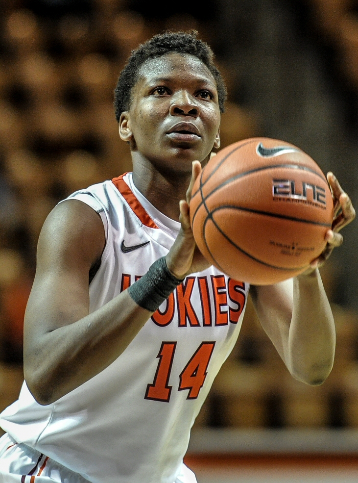 Uju Ugoka takes a free throw against Robert Morris